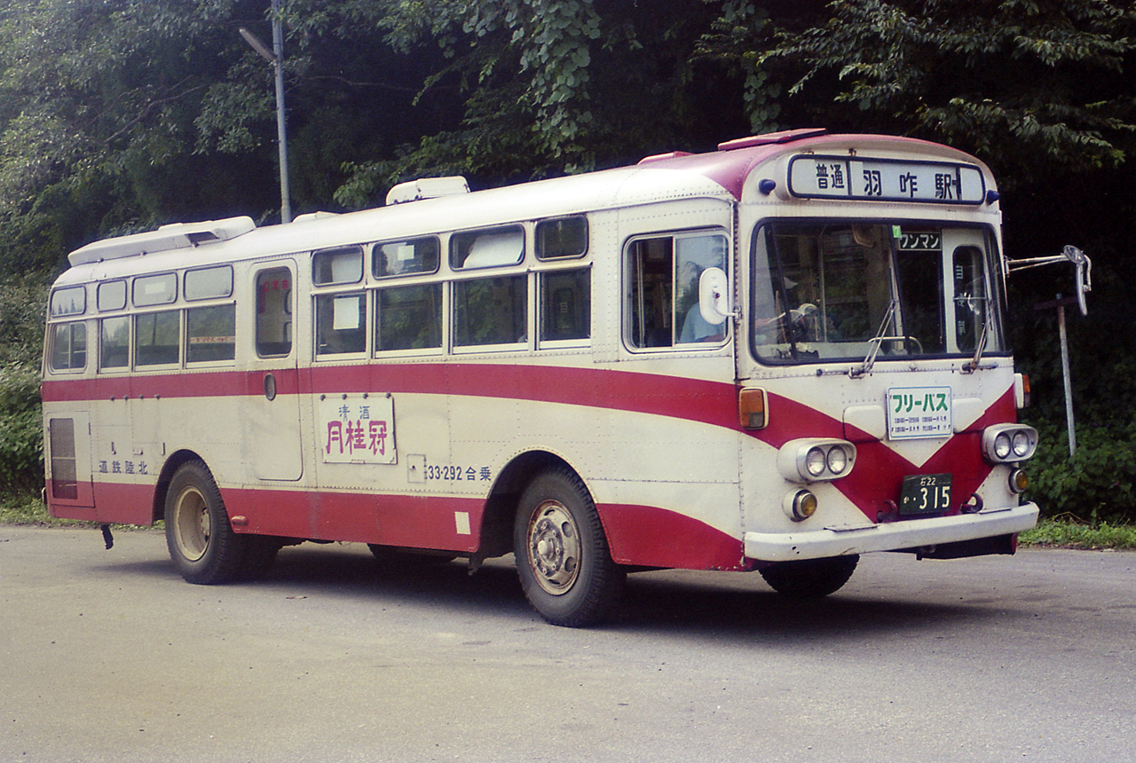 Hokuriku Railway Fuso MR520 1973 model Mitsubishi G4 type body